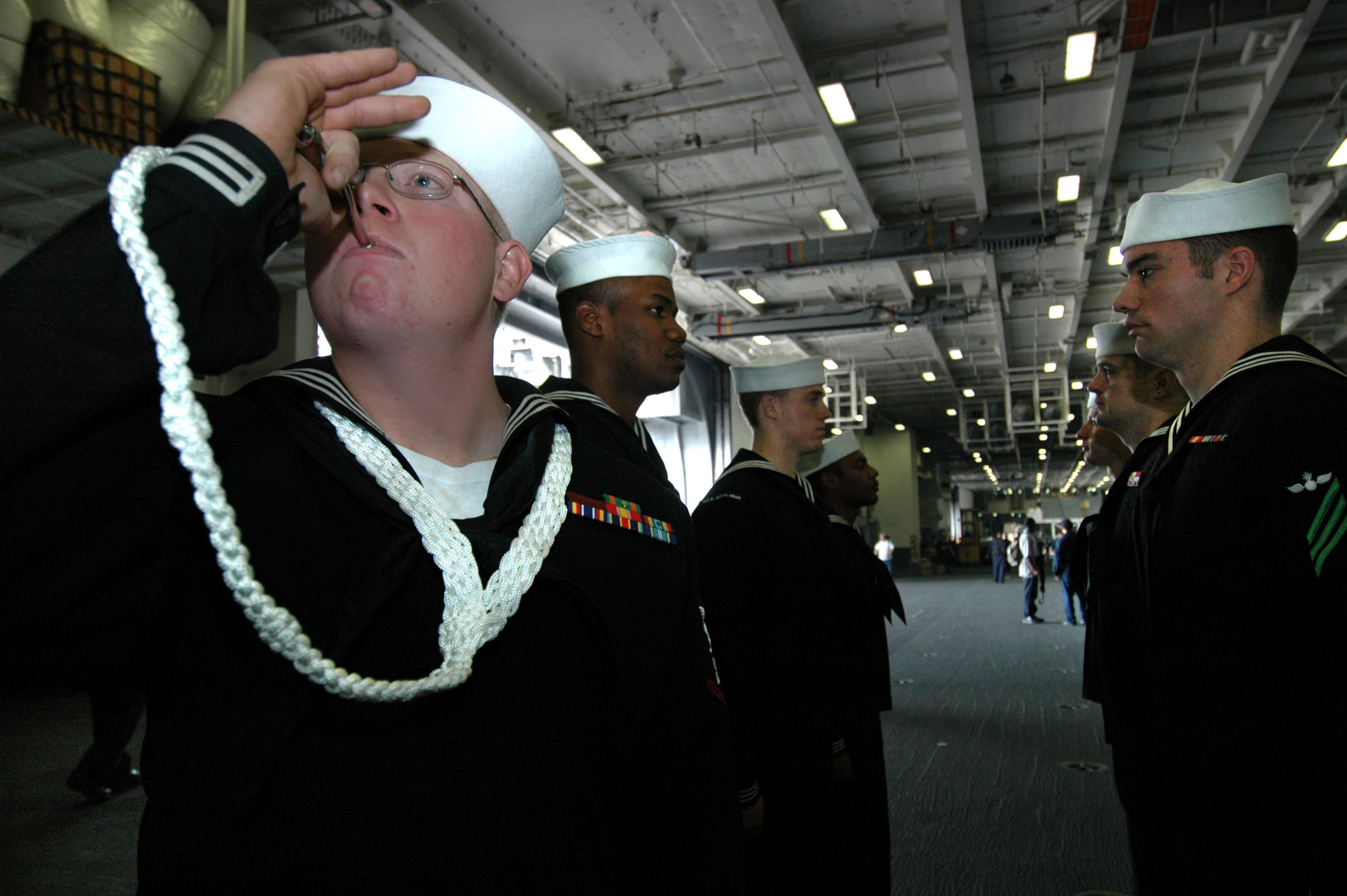 Yokosuka, Japan (Oct. 19, 2005) - Boatswain's Mate 3rd Class Bob Didier sounds the boatswain’s pipe during sideboy practice for the arrival of Vice Adm. Walter Massenburg in the hangar bay of the conventionally powered aircraft carrier USS Kitty Hawk (CV 63). Sideboys are called away for special ceremonies and arrivals of distinguished visitors. U.S. Navy photo by Photographer's Mate Airman Benjamin Dennis (RELEASED)